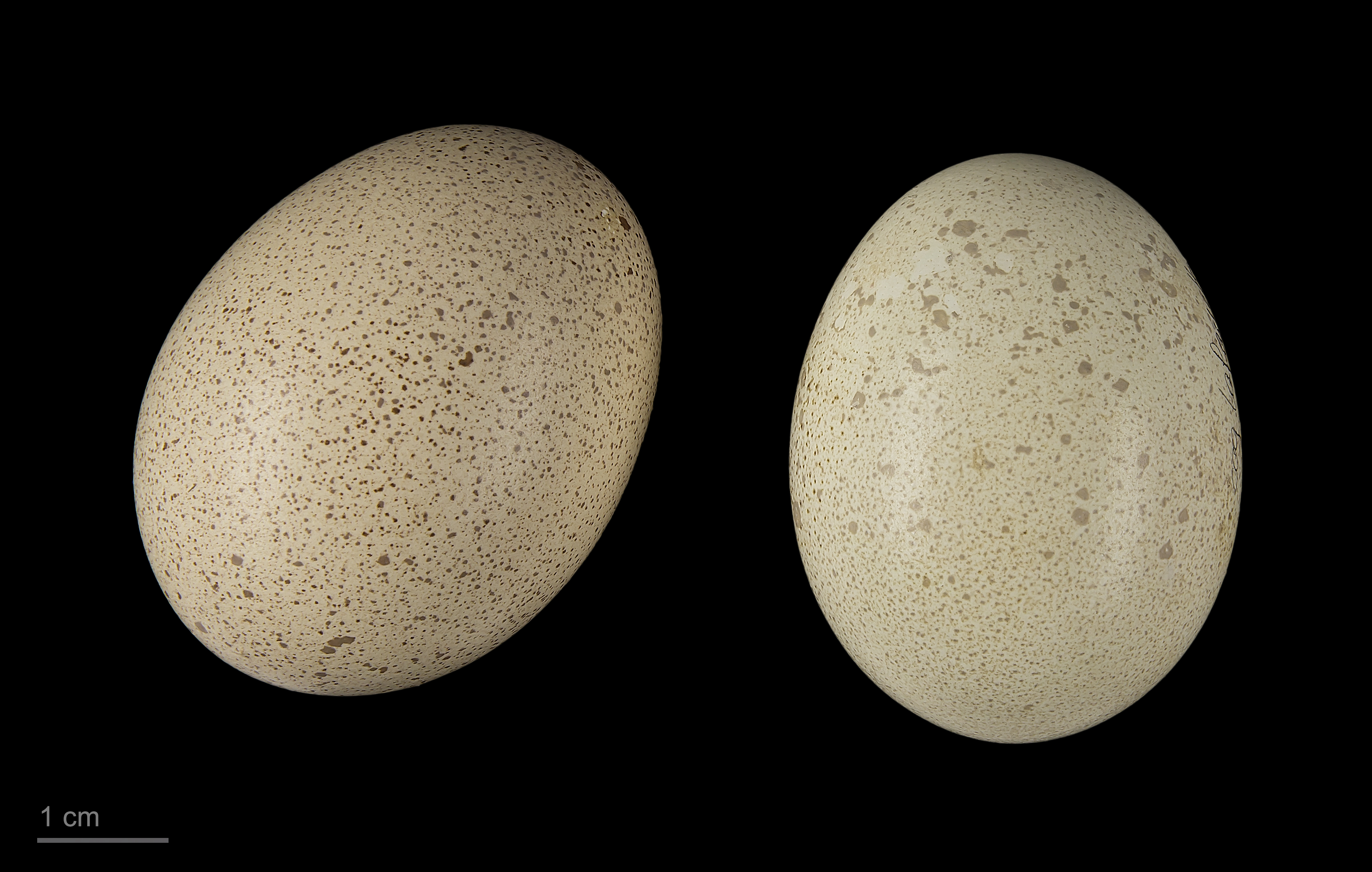 Egg of Sri Lankan junglefowl Collection of Jacques Perrin de Brichambaut.